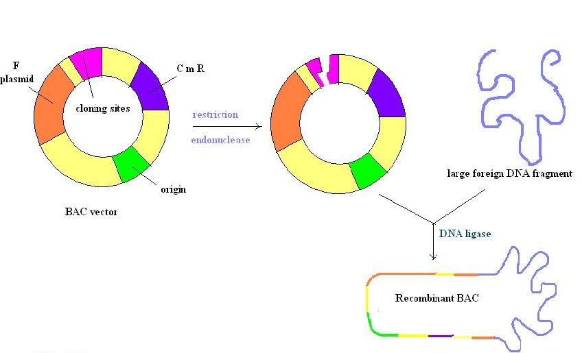 This shows a BAC vector being cut by a restriction enzyme, followed by the insertion of foreign DNA.